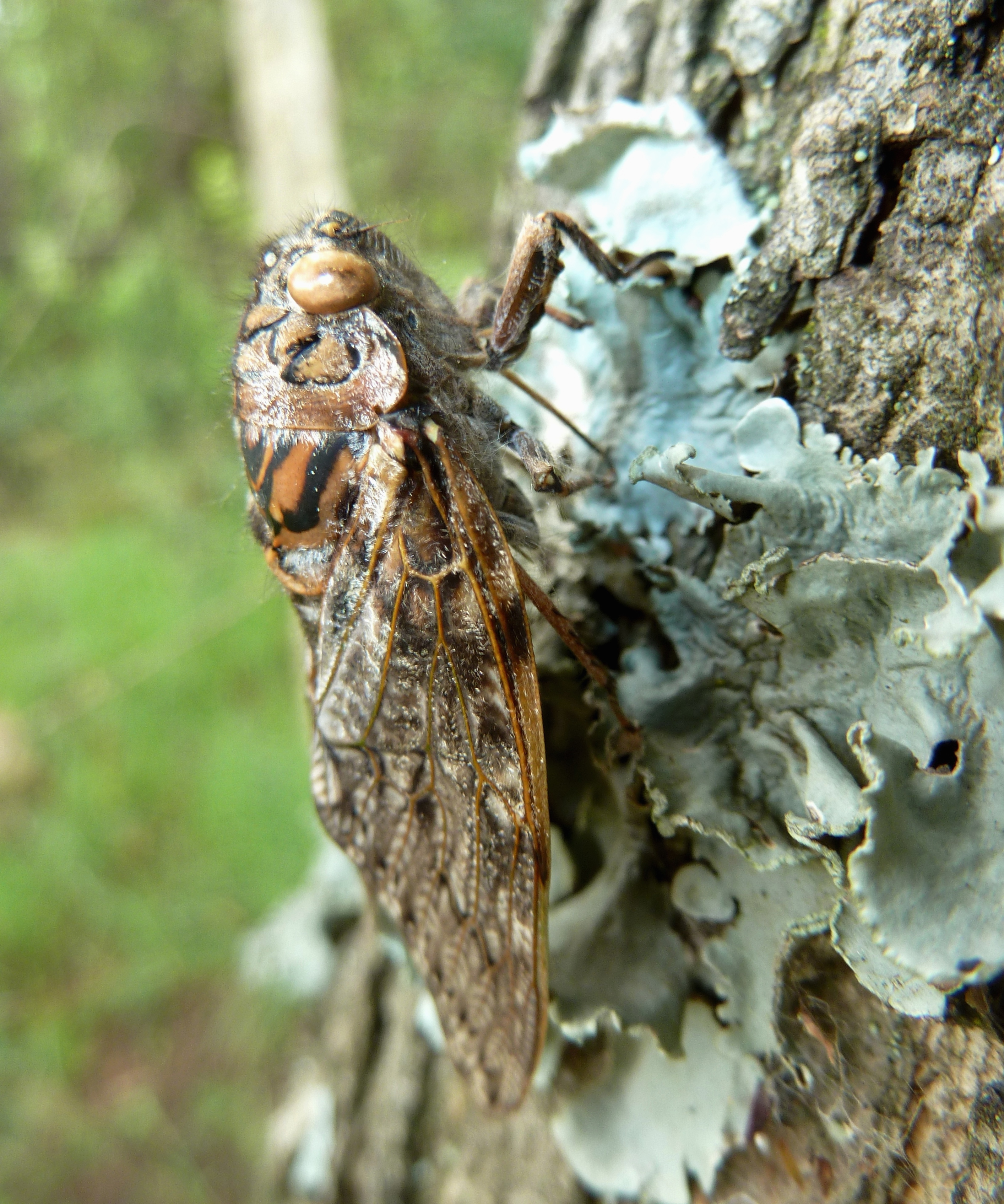 Side view of an Orange-winged cicada, P. mijburghi, collected at Skeerpoort on the southern slope of the Magaliesberg, South Africa. The species feeds on Cussonia and Searsia.